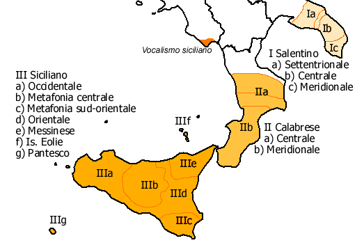 Sicilian languages by Pellegrini